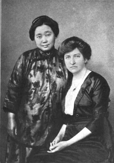 A portrait of two women. The Chinese woman, Shi Meiyu, is standing and wearing a printed silk top; the white woman, Jennie V. Hughes, is seated with her hands in her lap; she is wearing a black dress with a white front. Both women have their hair dressed up off their necks.